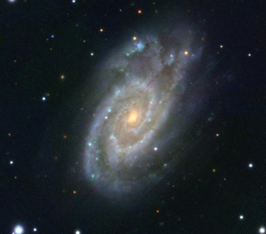 Color image of NGC 5861 created by the stacking of i, r, and g filter images provided by PanSTARRS-1 archive.